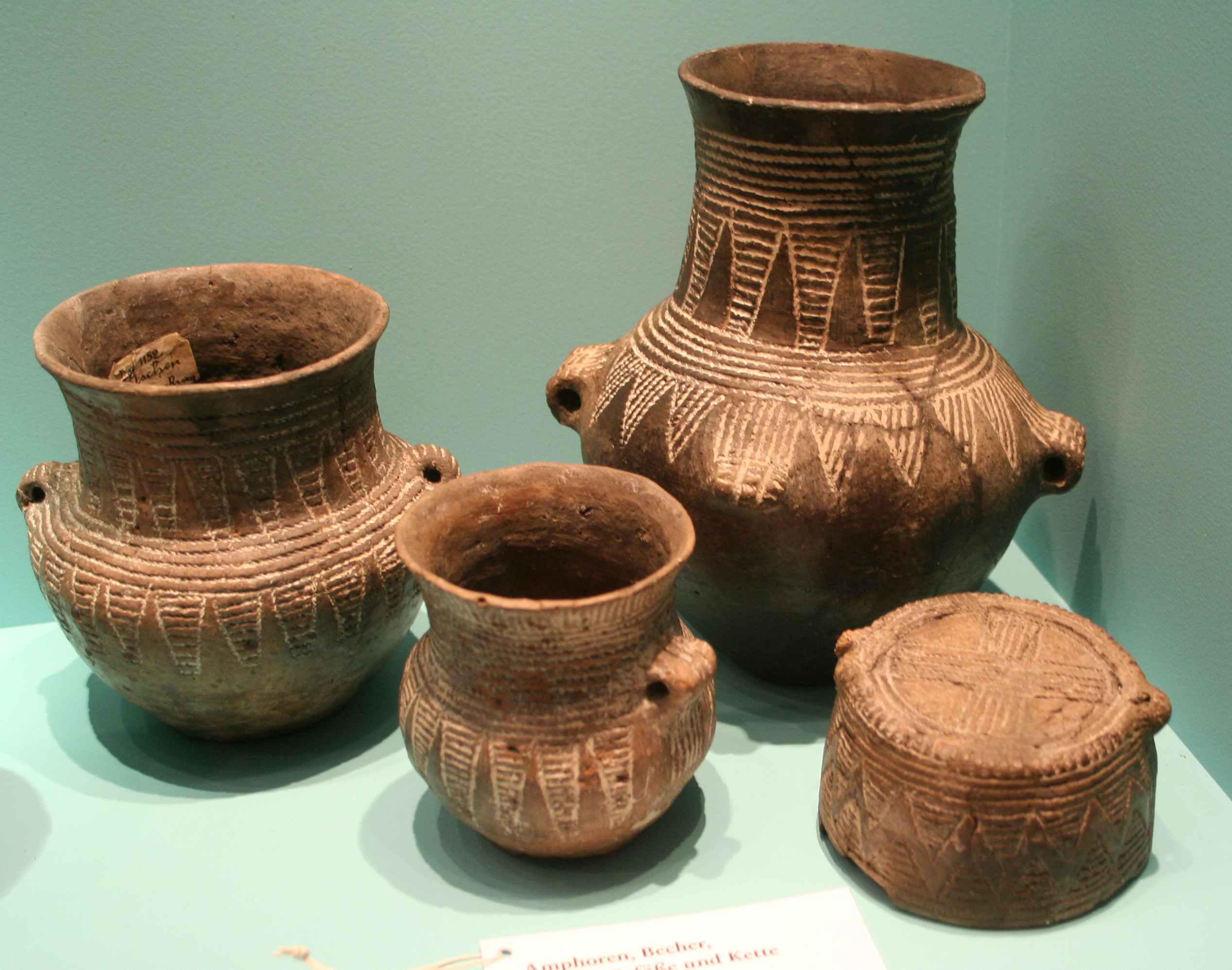 Museum für Vor- und Frühgeschichte (Museum of prehistory and early history), Berlin